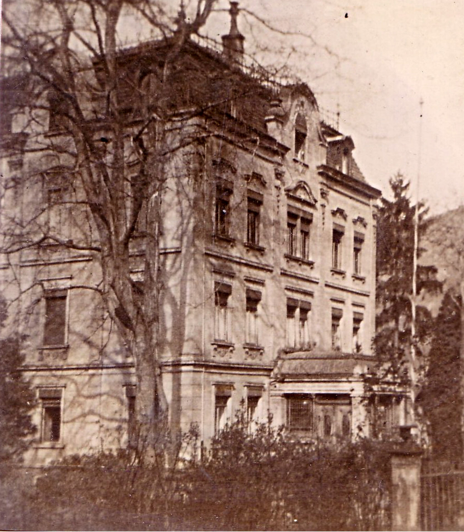 Residence "Villa Fahlberg" in Nassau, Germany, about 1905/06